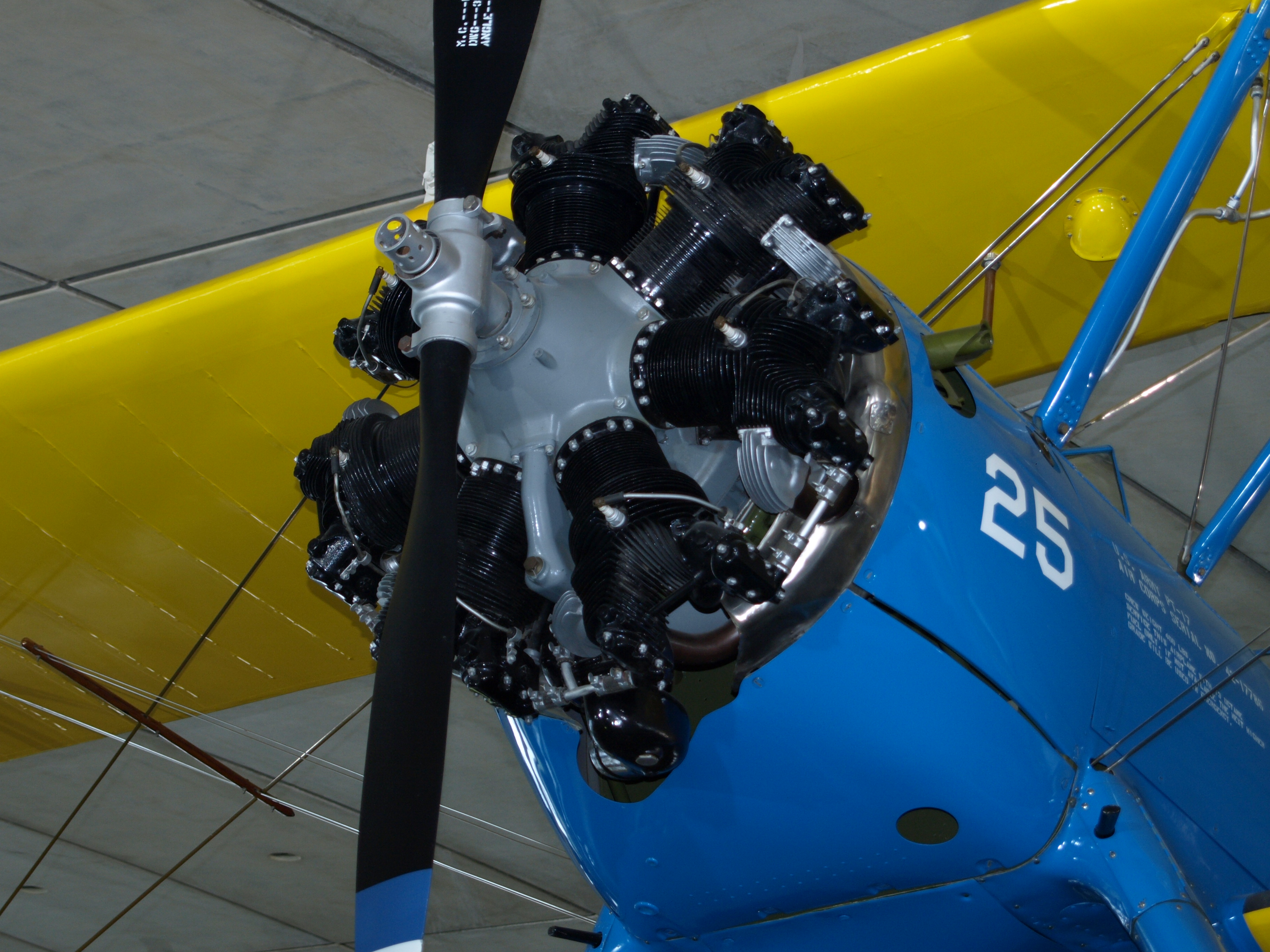 Continental R-670 aircraft engine